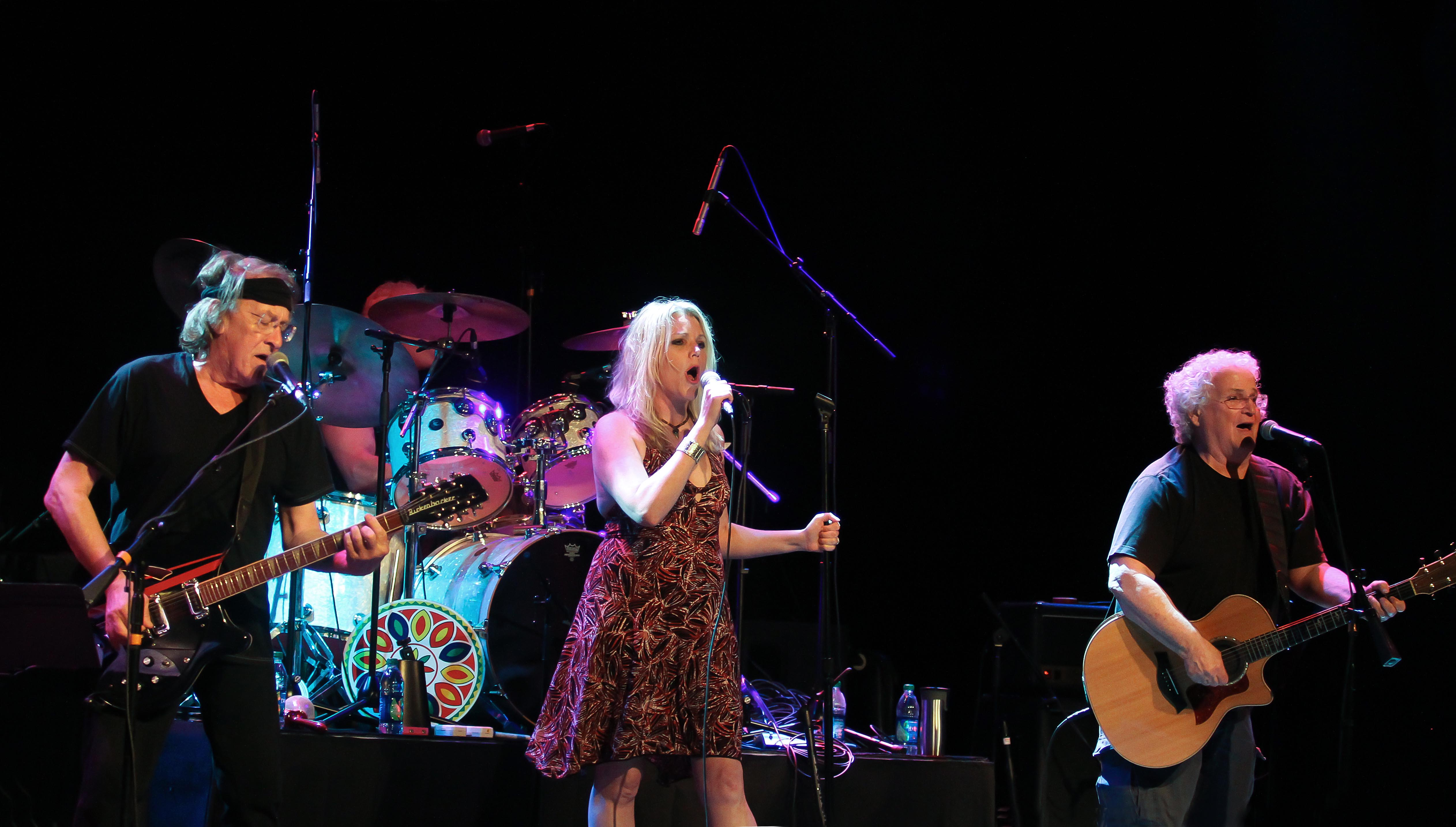 Jefferson Starship performing in concert in Jacksonville, Florida in May